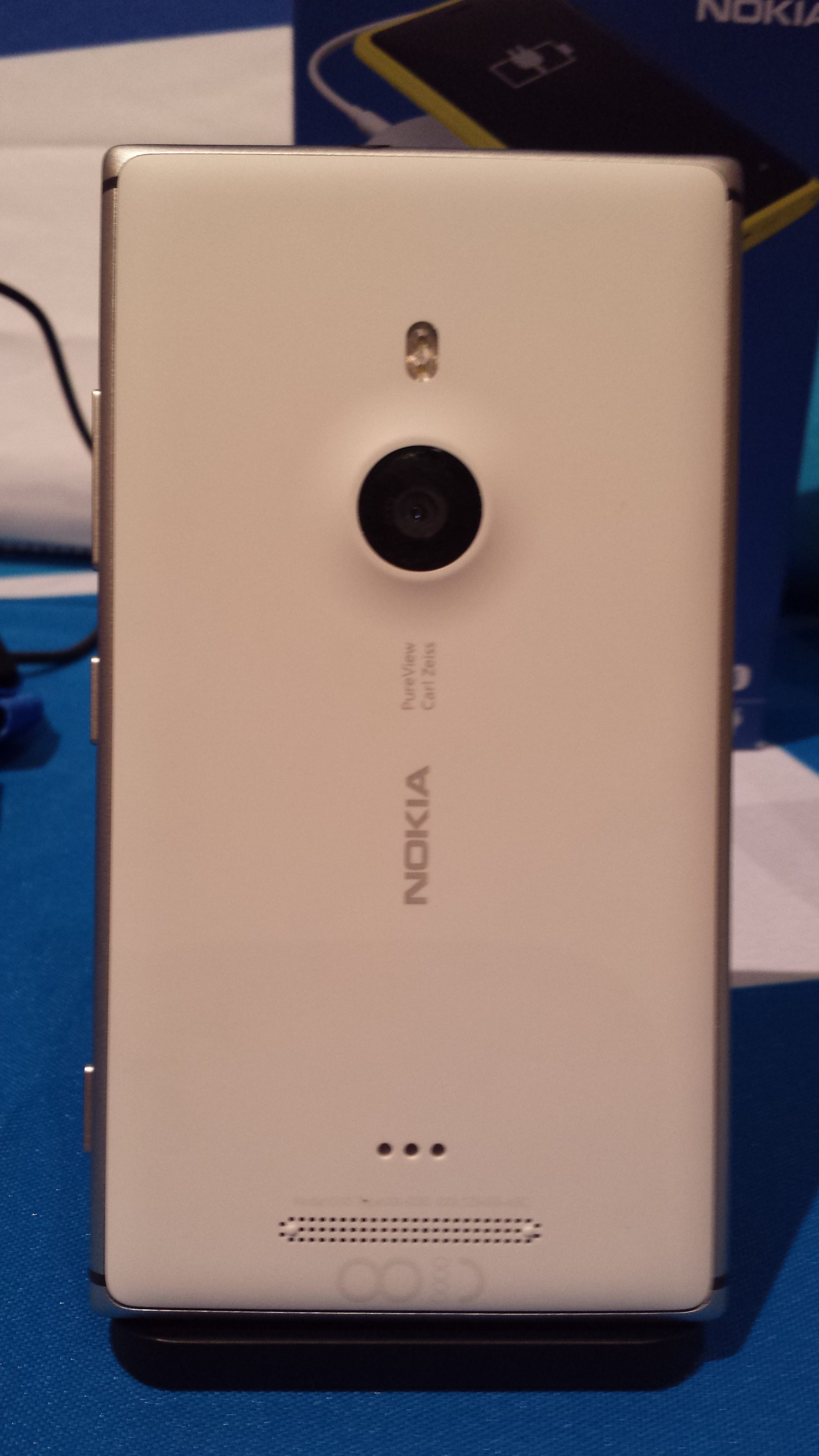 Special thanks to Jeb Brilliant for the photos in this photo set.